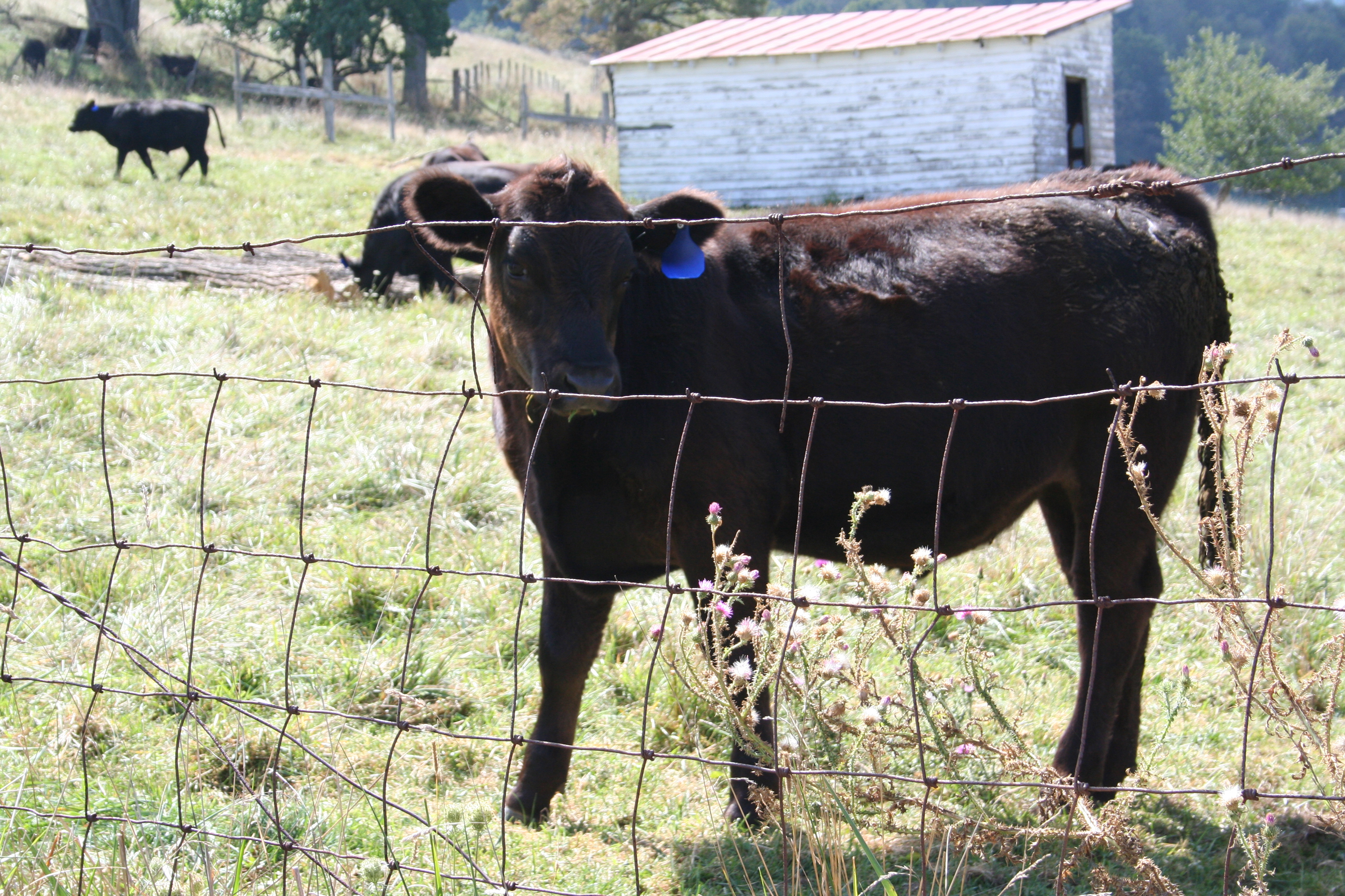 Tagged Blue Grass, VA